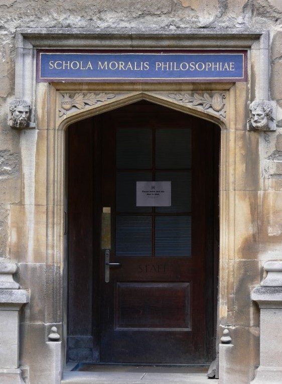 Doorway to the Schola Moralis Philosophiae ("School of Moral Philosophy") in the Old Schools Quadrangle of the Bodleian Library, University of Oxford. One of six former lecture rooms on the ground level of the quadrangle. They were taken over by the Bodleian Library between 1789 and 1884. This doorway now serves as the staff entrance.